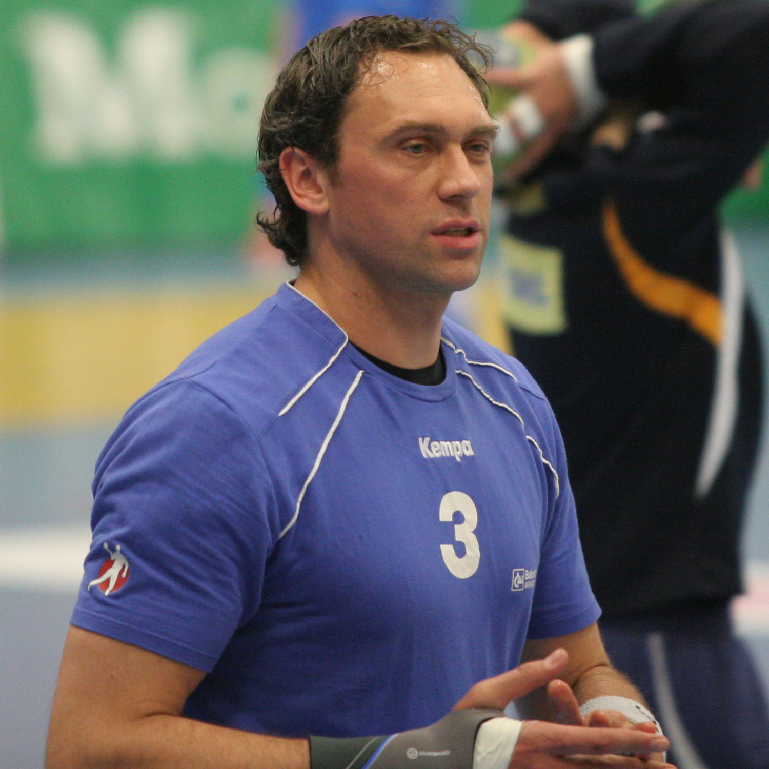 Stian Vatne, Norwegian handball player from BM Aragón, on April 26th, 2009 in Gummersbach (Eugen-Haas-Halle), prior the IHF Cup game between VfL Gummersbach and BM Aragón.